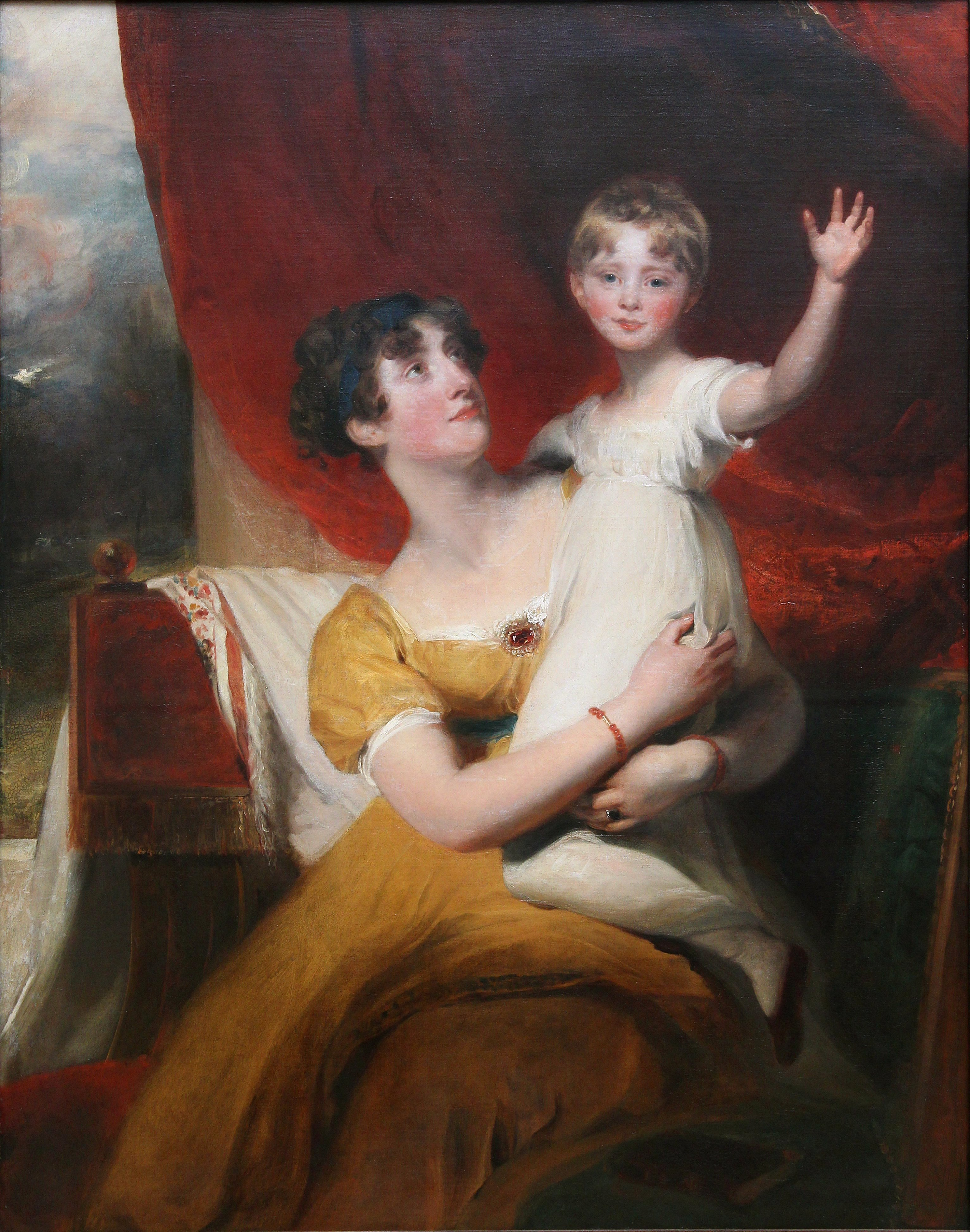 Lady Orde with Her Daughter Anne